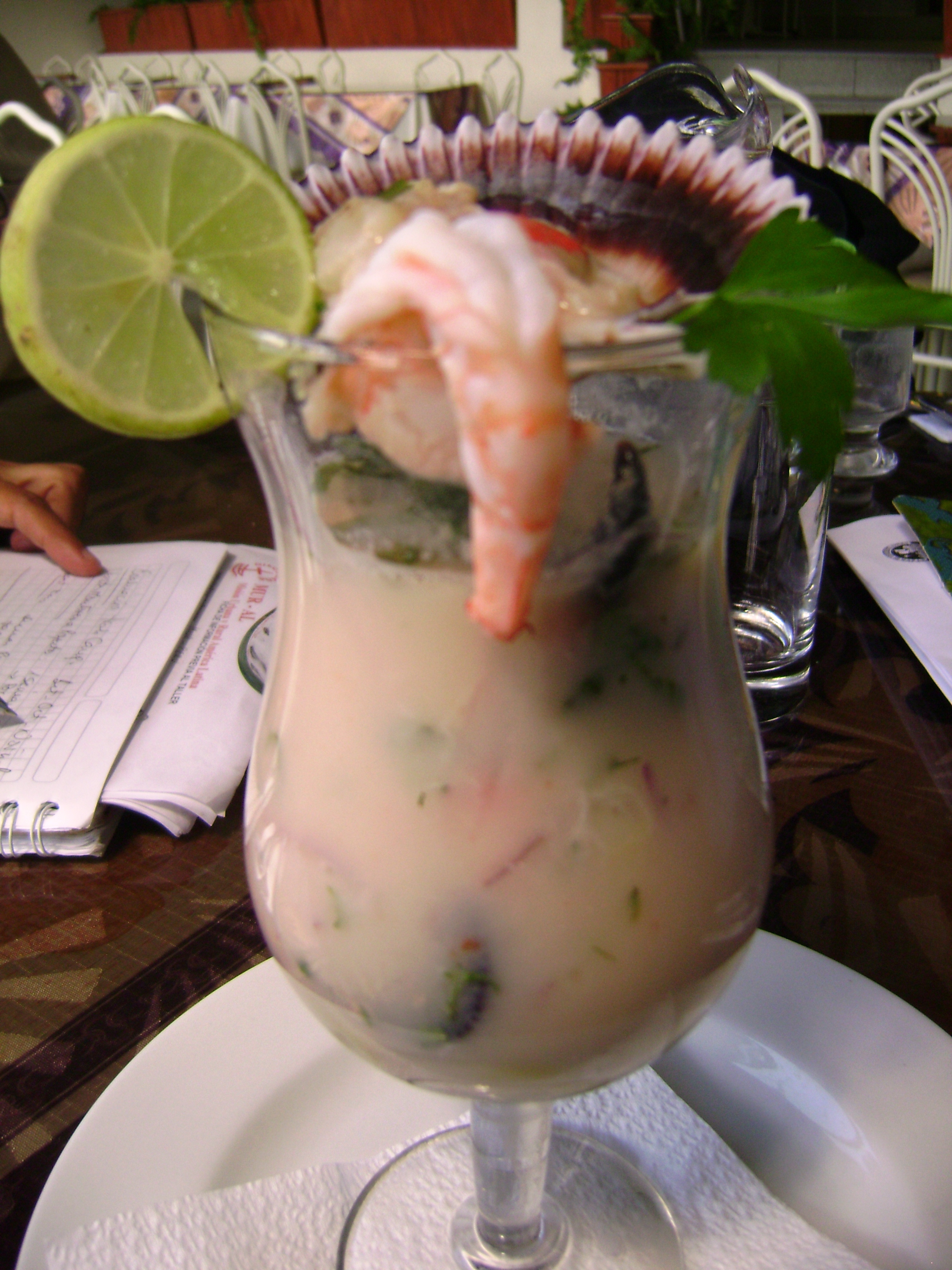 'Leche de tigre' (Tiger's milk) served in a cup.